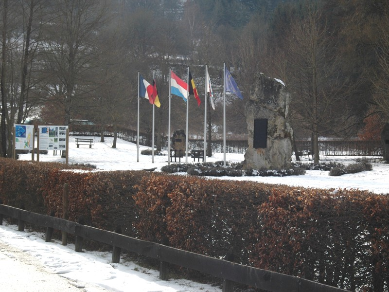 European monument 50 m west of the border triangle Germany-Belgium-Luxemburg.